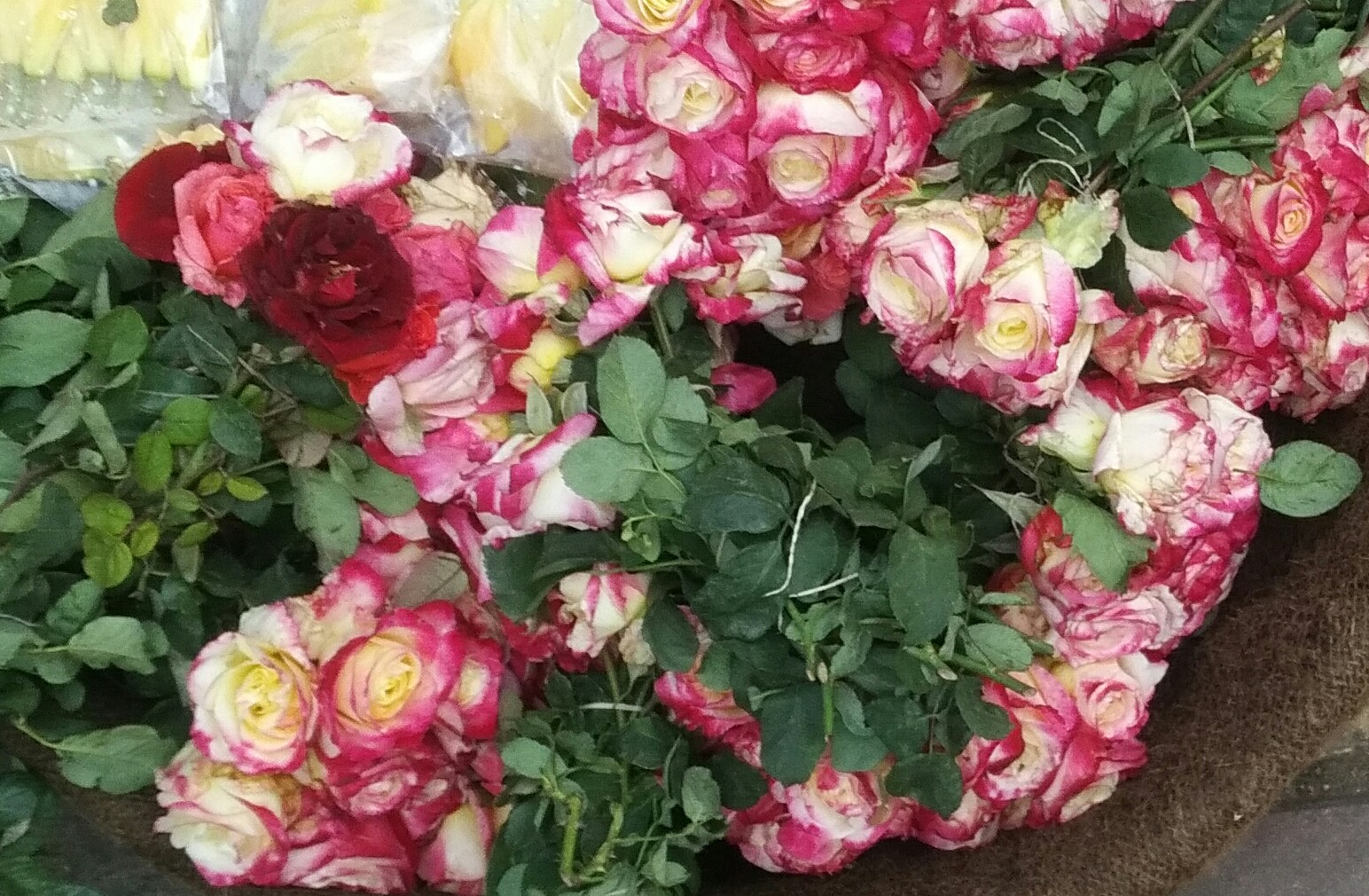 Roses in florist's shop in Deccan Gymkhana, Pune.